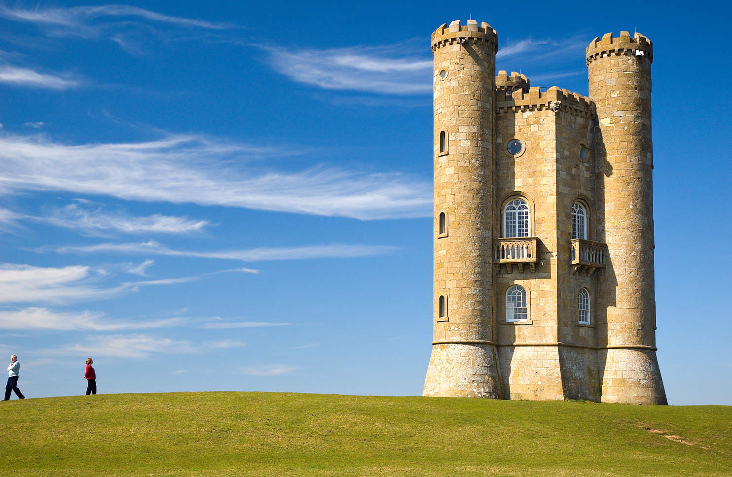 Broadway Tower, Cotswolds, England.